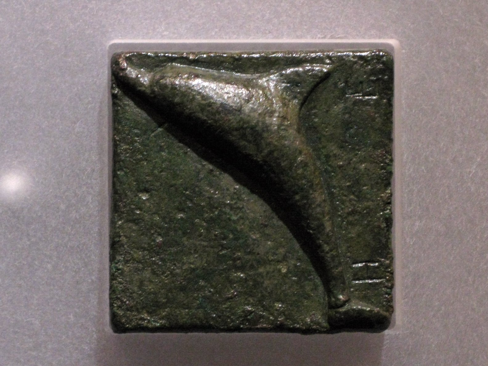 Attic bronze weight (446 grams) with a dolphin in relief and two incised letters: H E. 6th-5th century BC Cycladic Art Museum, Athens, Greece.